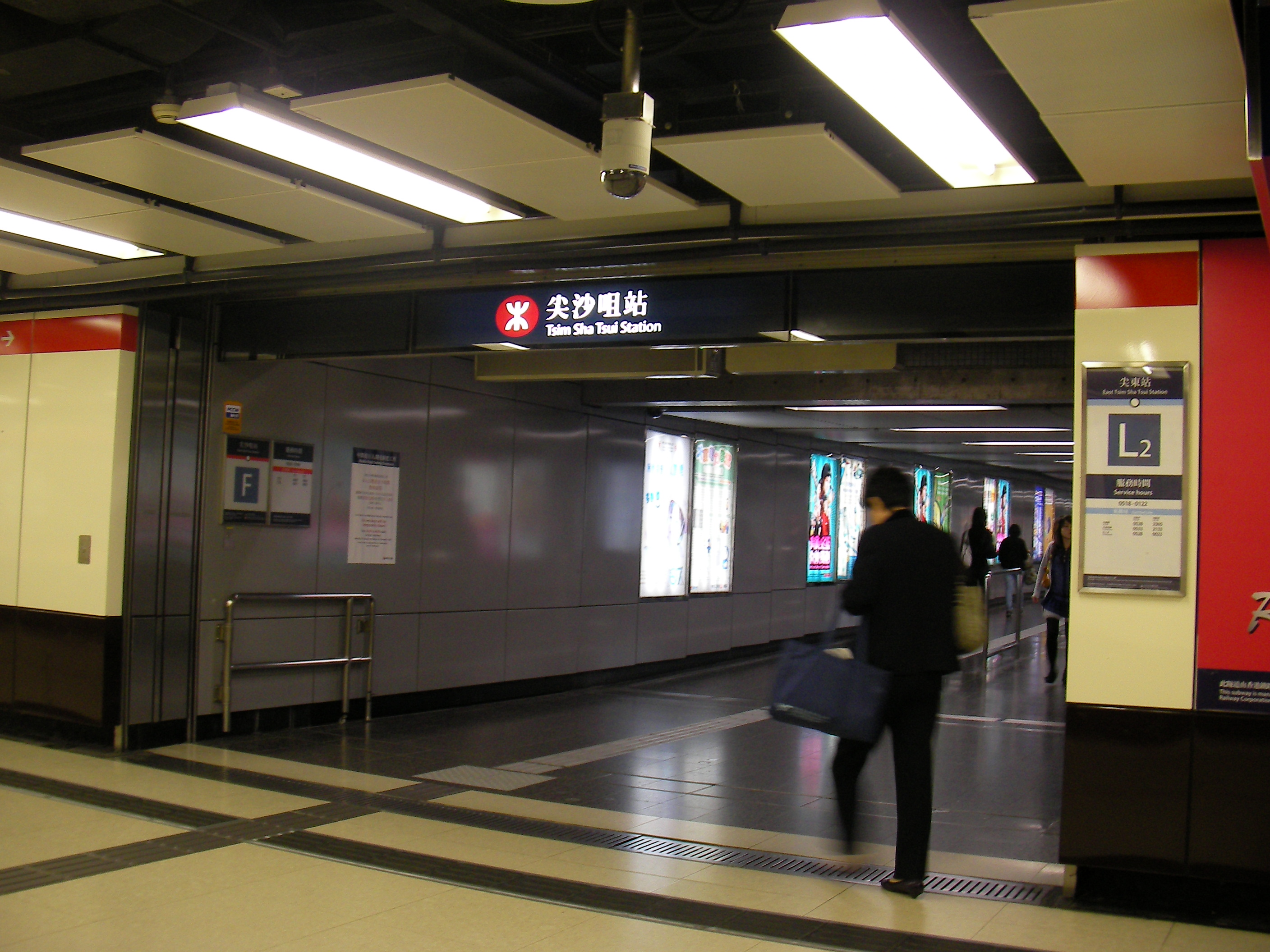 MTR East Tsim Sha Tsui Station Middle Road Subway Exit L2 and Tsim Sha Tsui Station Exit F